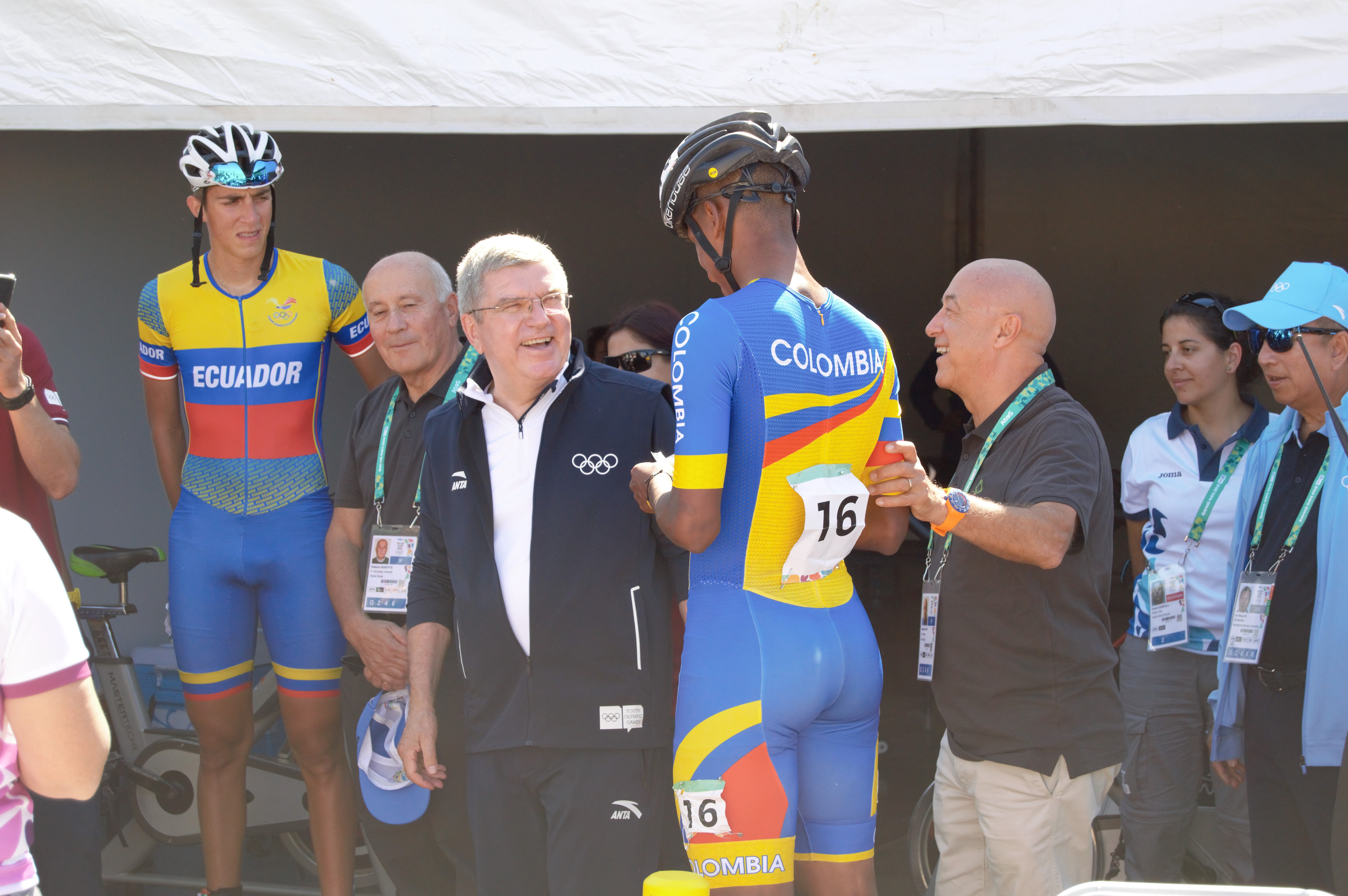 The President of the IOC Thomas Bach shares a word with Jhonny Andres Angulo Reina from Colombia at the 2018 Summer Youth Olympics.